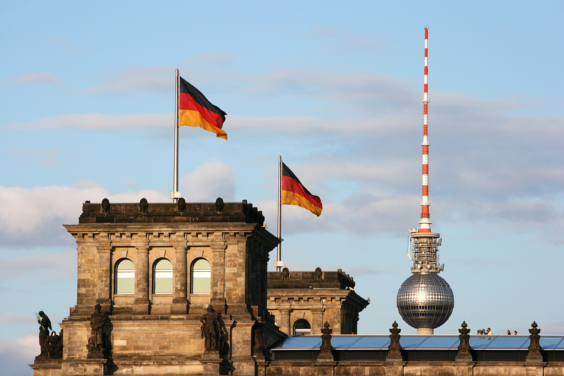 Reichstag building and Fernsehturm (television tower) in Berlin, Germany